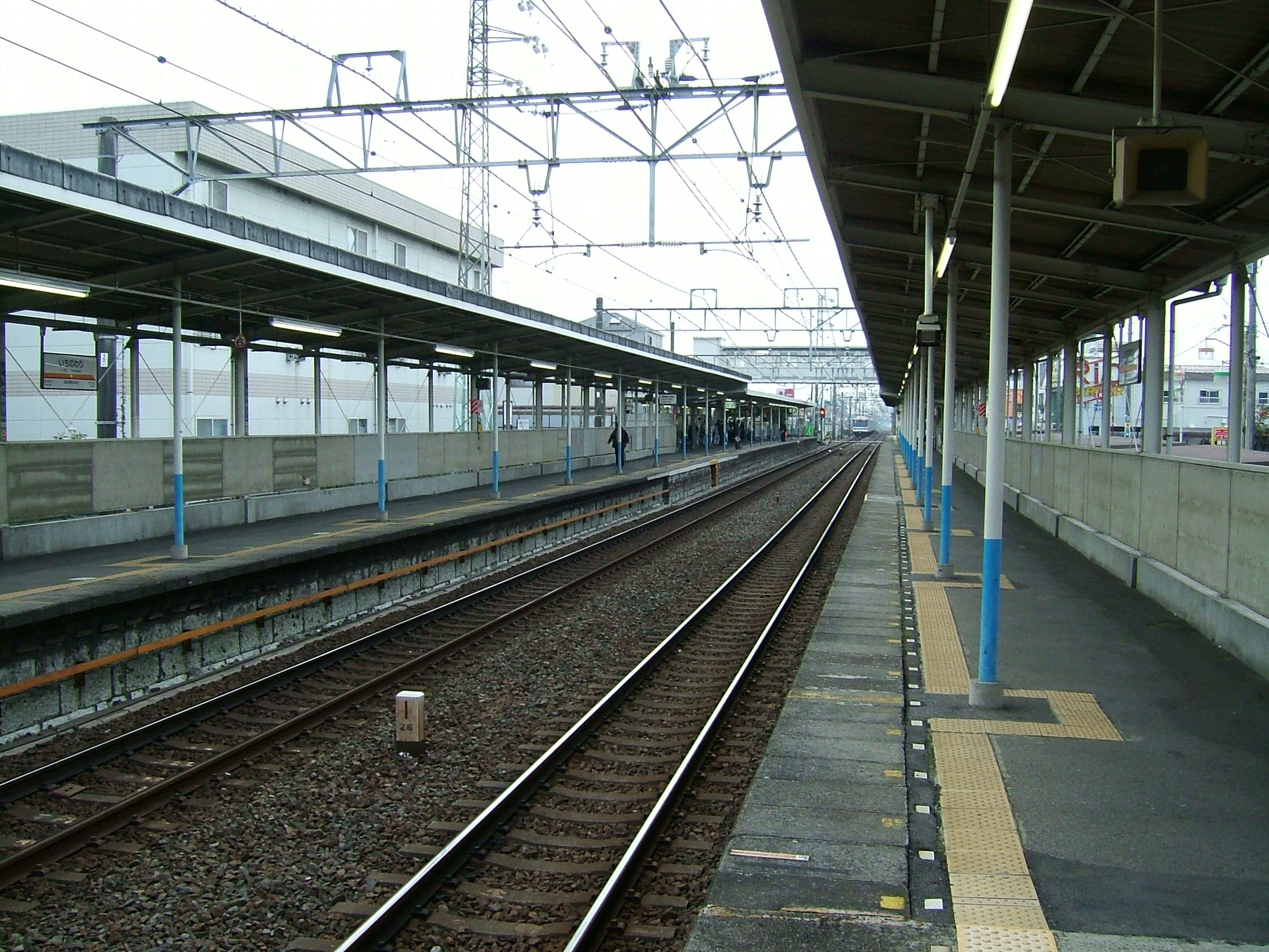 Ichinowari Station platform (Tōbu Railway Isesaki Line)